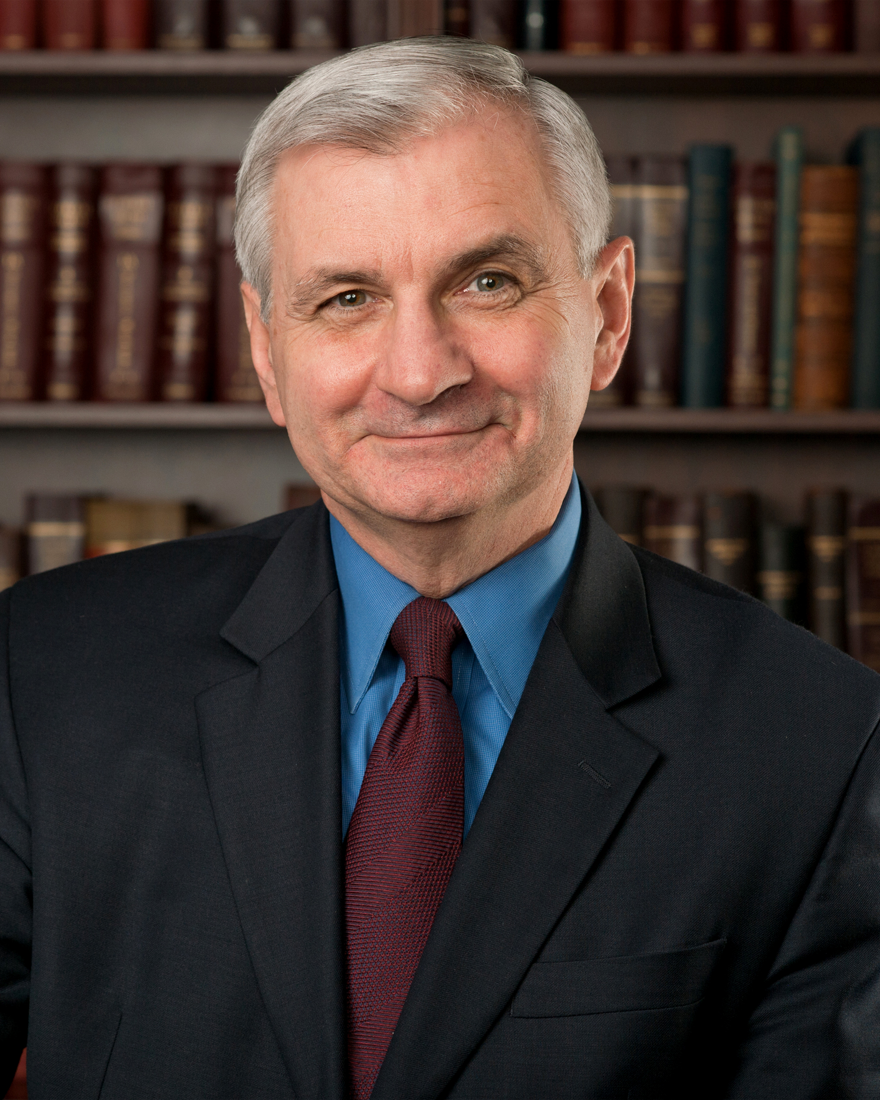 Official portrait of Senator Jack Reed (D-RI).